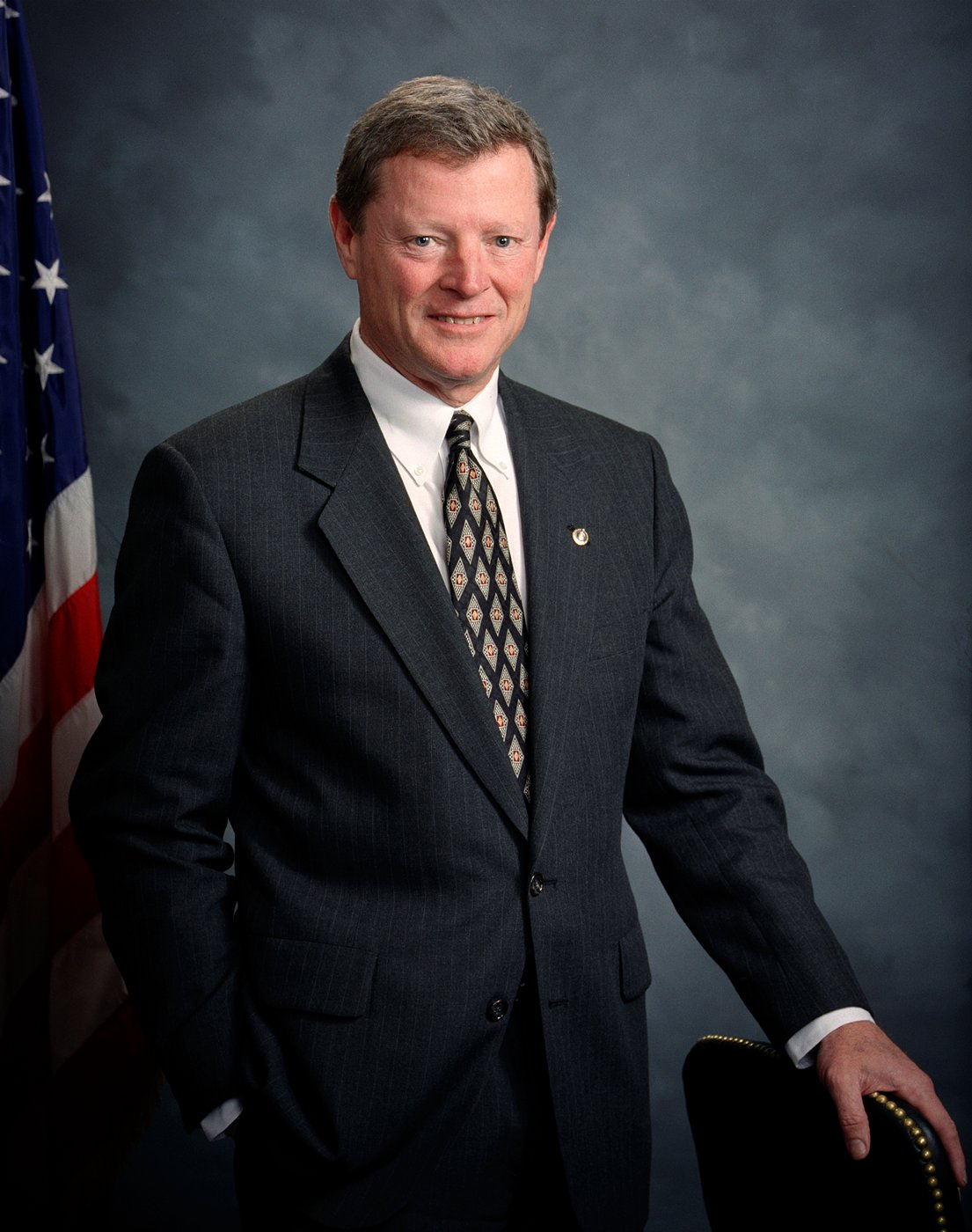 Jim Inhofe, U.S. Senator from Oklahoma.